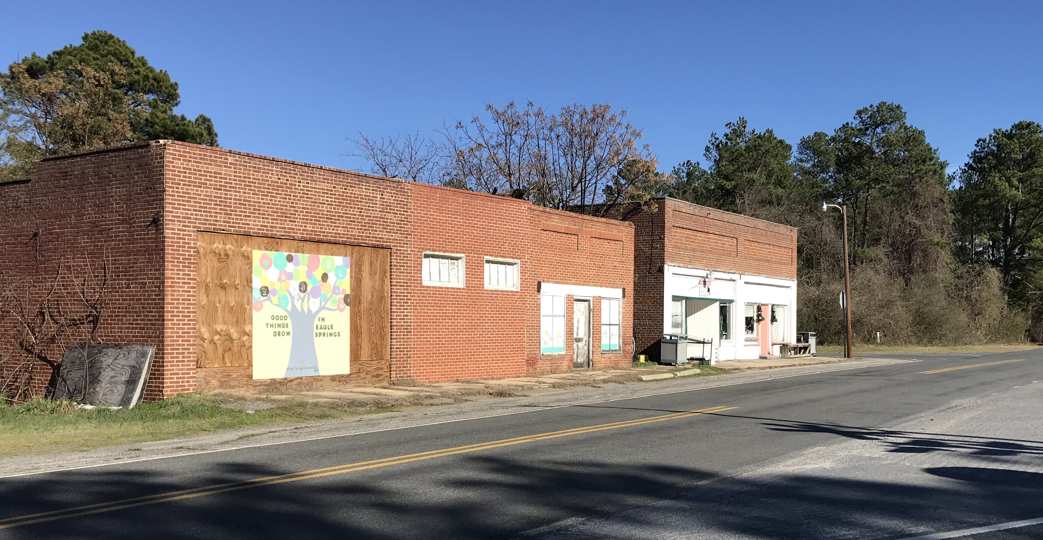 Commercial buildings along Eagle Springs Road in Eagle Springs